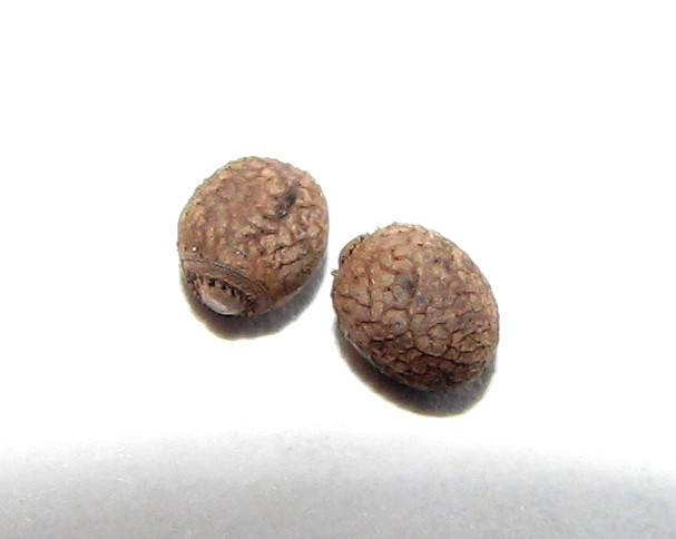 Zompro's Stick Insect (Parapachymorpha zomproi), eggs